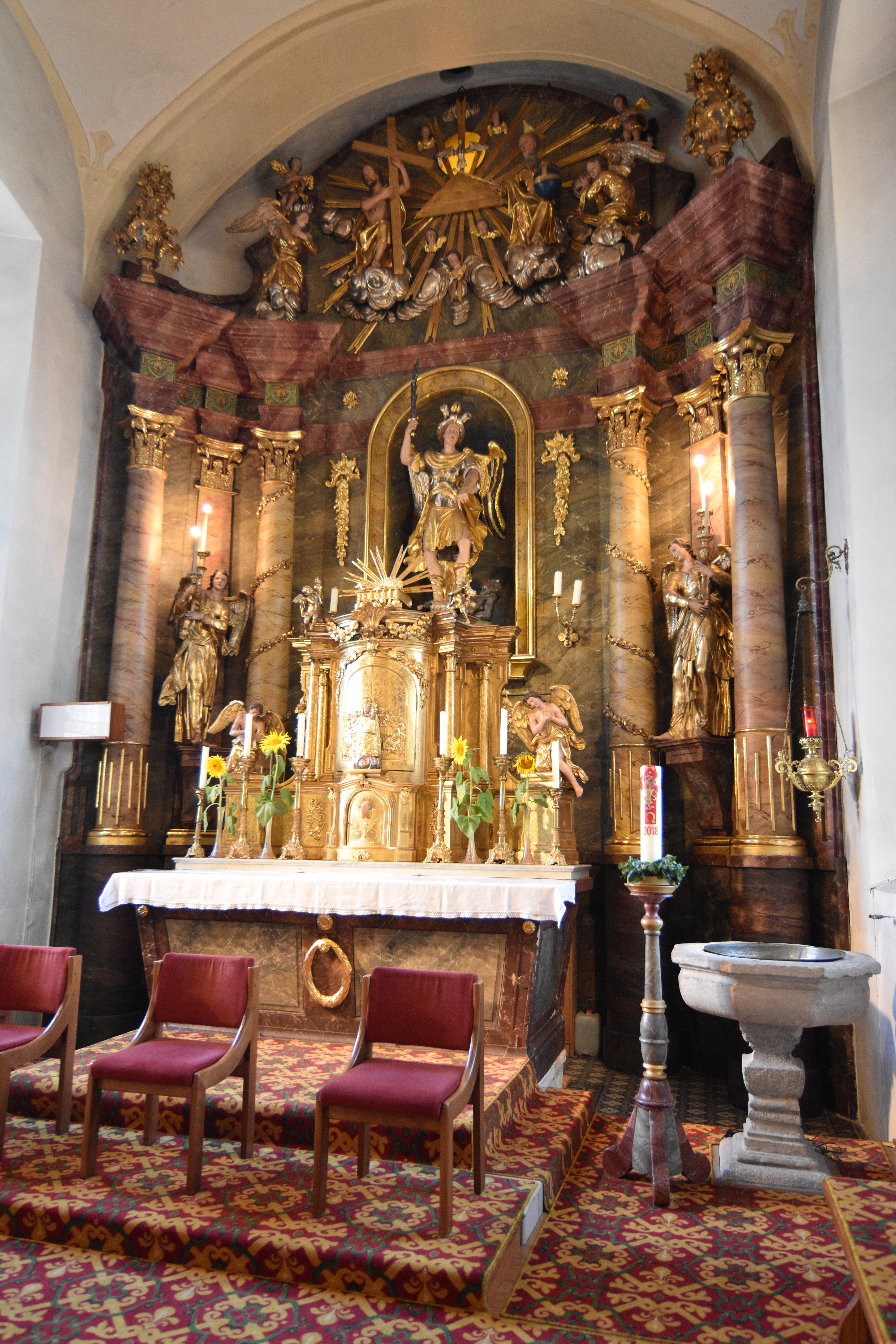 Saint Michael Church (Grafendorf bei Hartberg) - Interior